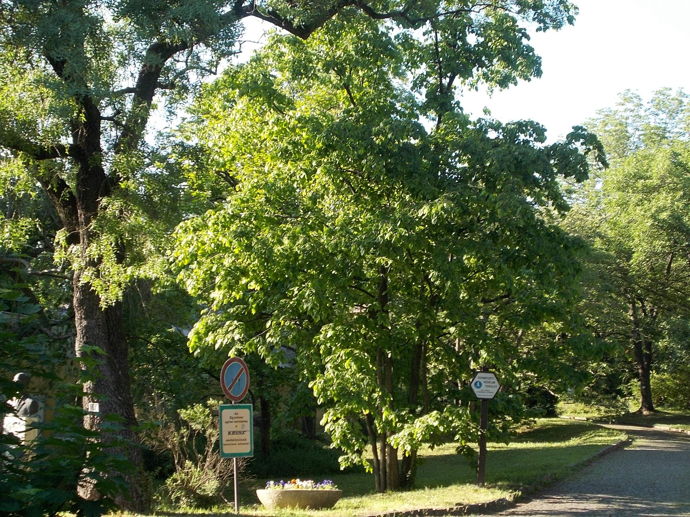 Former University of Horticulture. Upper (Old) arboretum. Historicist styled landscape gardens. By Károly Räde, built in 1893-94. Monument ID 11580. - Budapest XI. Ménesi Rd 39-41